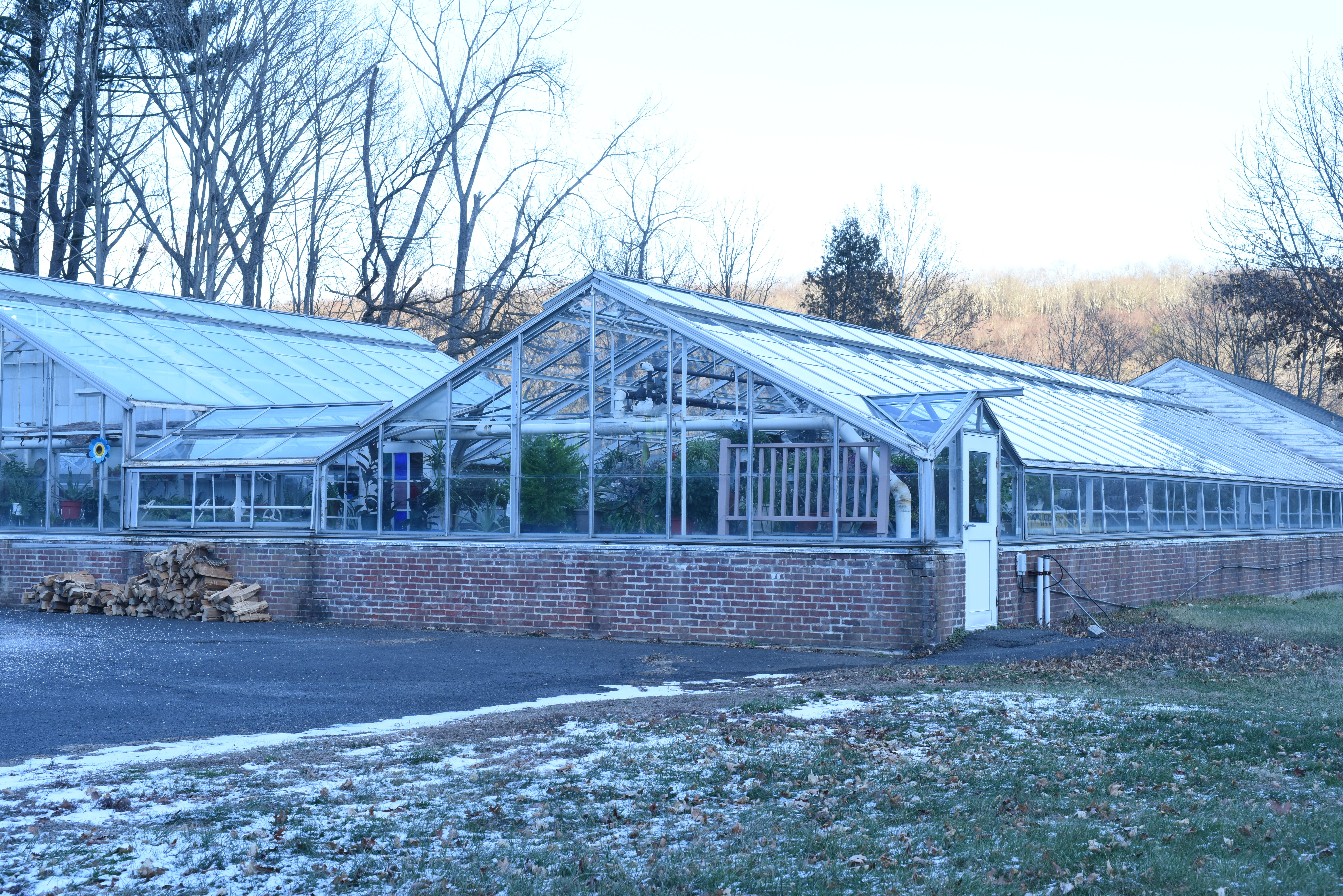 Southbury, CT.